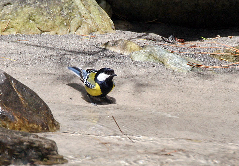 Green-backed Tit Parus monticolus in Kullu District of Himachal Pradesh, India.